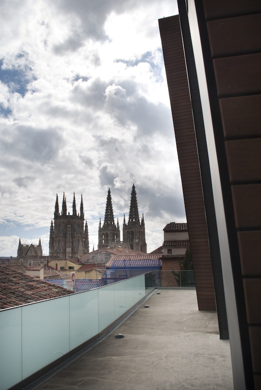 CAB - Centro de arte Caja de Burgos